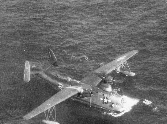 U.S. Navy Lt.(jg) J.M. Denison is rescued by a Martin PBM Mariner in the Pacific. He was shot down while operating from the escort carrier USS Marcus Island (CVE-77).